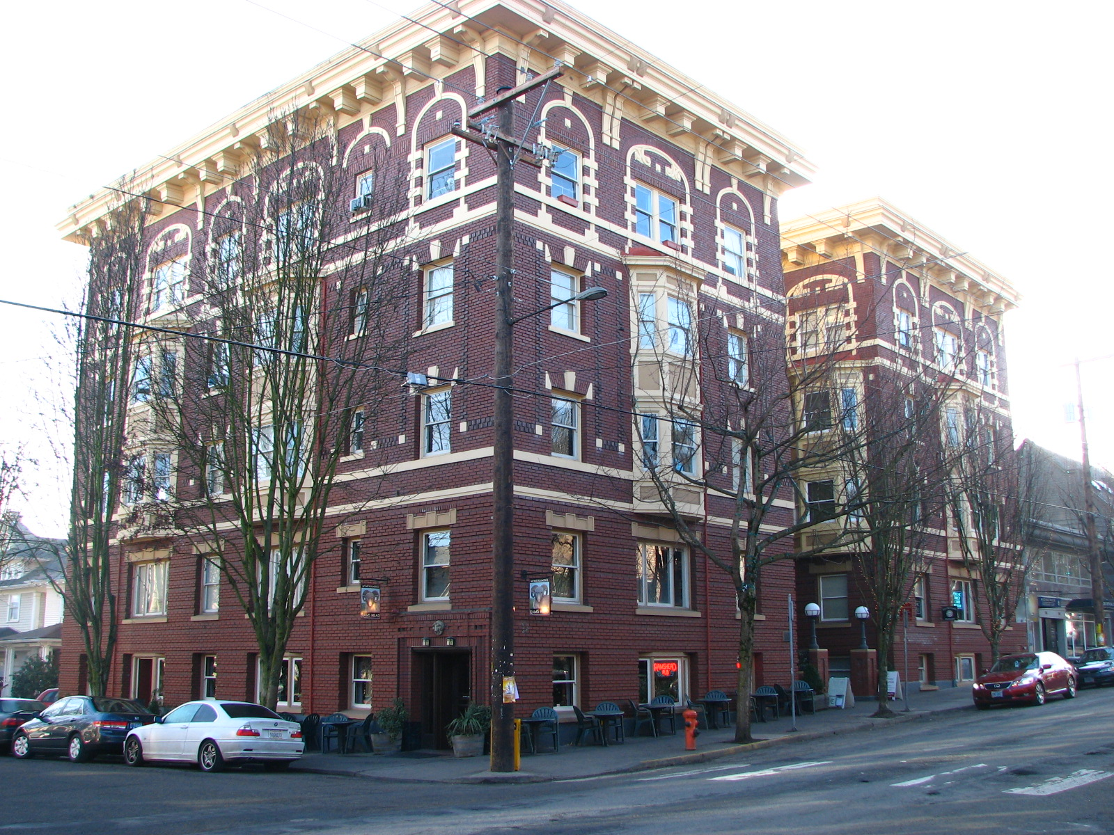 The historic Campbell Hotel (built 1912), located at 530 Northwest 23rd Avenue in Portland, Oregon, United States, is listed on the U.S. National Register of Historic Places. It is additionally listed as a contributing resource in the Alphabet Historic District; the historic district is also listed on the National Register.